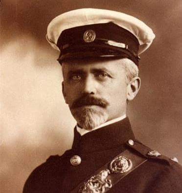 O'Neill Conroy family photo